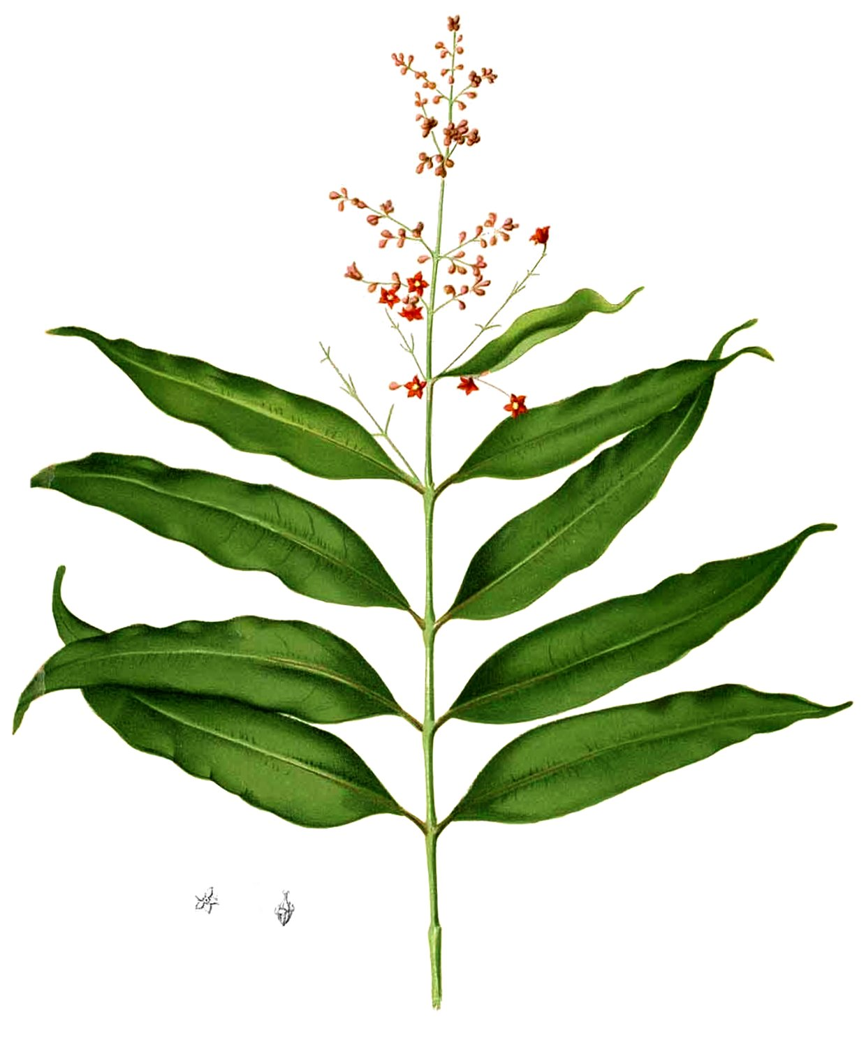 Hypericum olympicum Plate from book